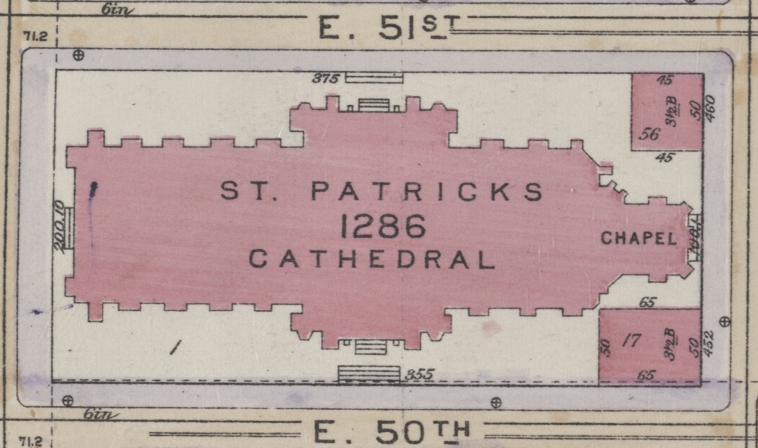 Plate 78 from: Bromley, George W. and Walter S. Atlas of the Borough of Manhattan City of New York. Desk and library edition. (New York: G. W. Bromley and Co., 1916)